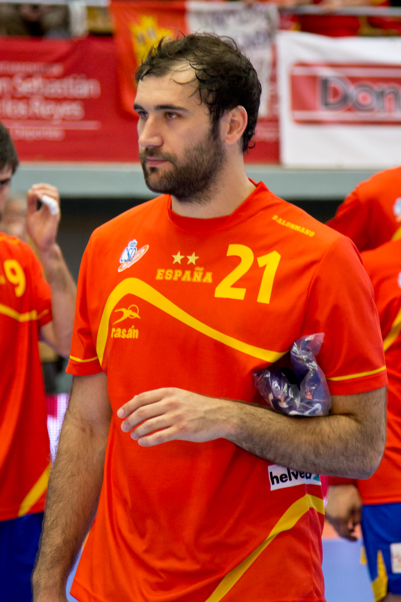 Spain Handball All Star Game 2013, held in San Sebastián de los Reyes, Madrid, Spain.